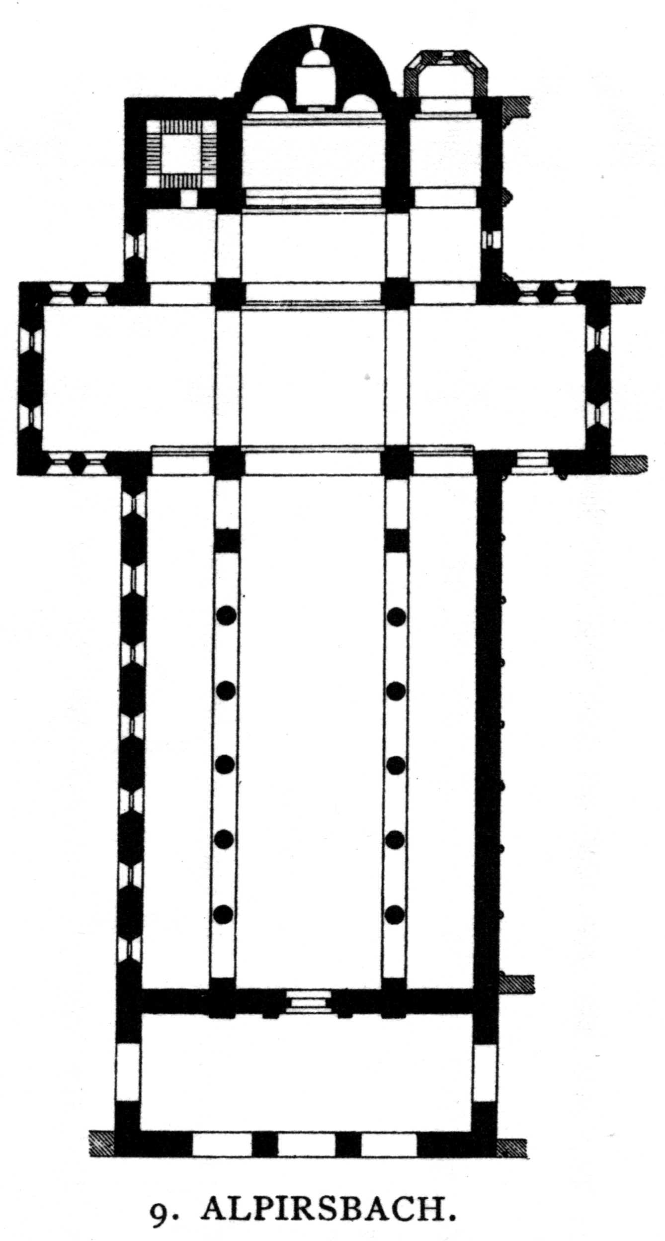 Monastery church of Alpirsbach, floor plan.